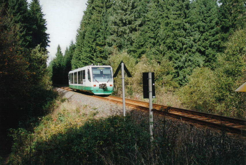 VT 41 of the Vogtlandbahn in Schöneck, Germany (2001-10-14)